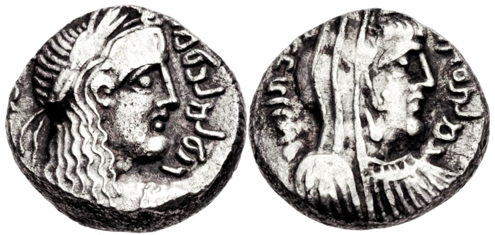 Silver drachm of Rabbel II with Gamilat (14 mm, 3.40 g)